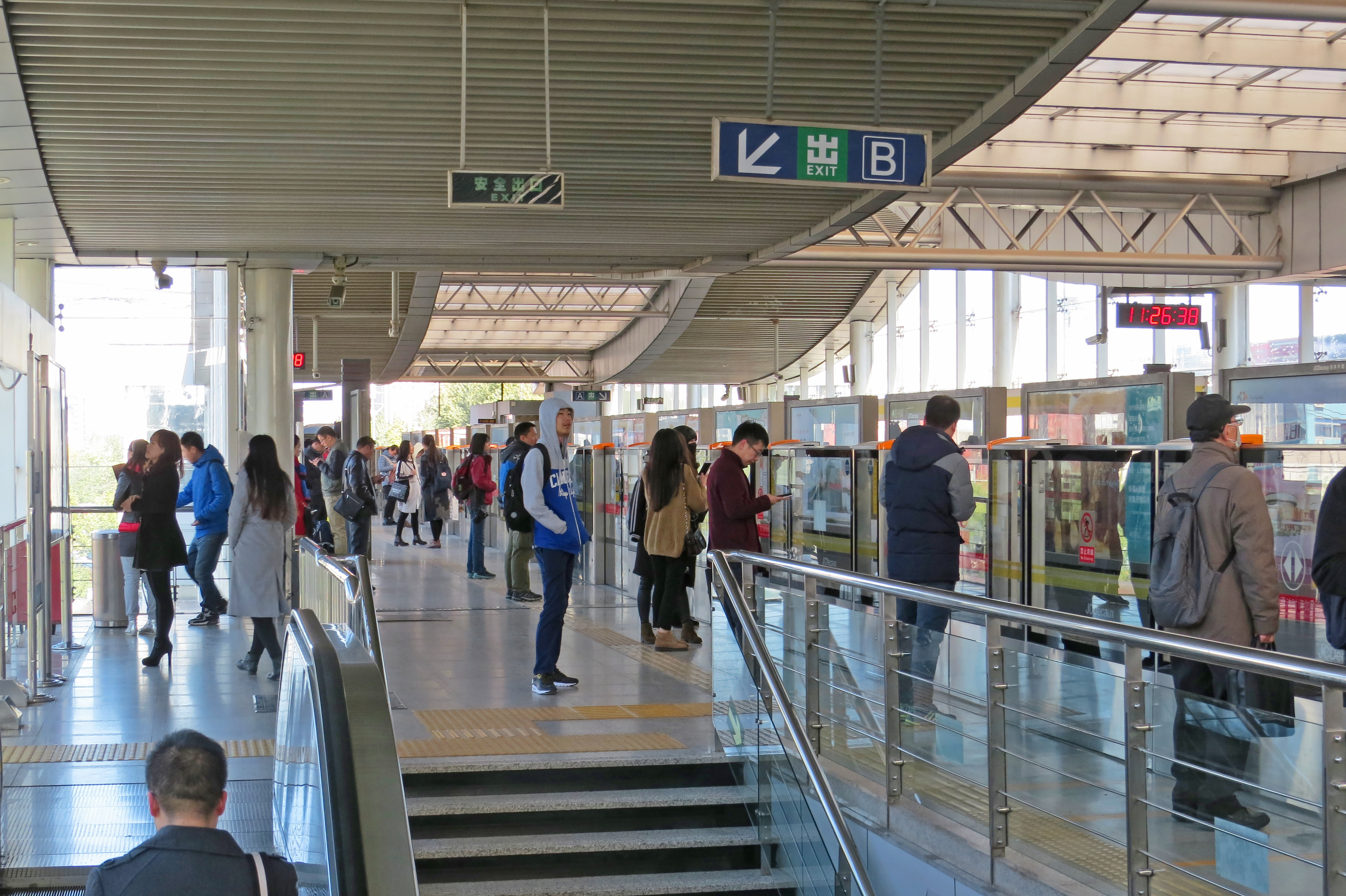 Center of the Universe on the last day of the level crossing which this place is named after.